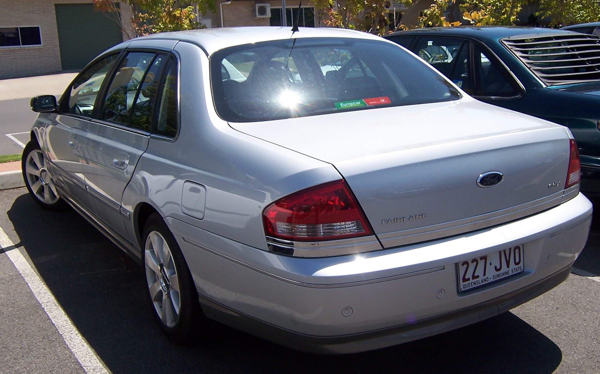 2005–2007 Ford Fairlane (BF) Ghia sedan. Photographed in Hervey Bay, Queensland, Australia.